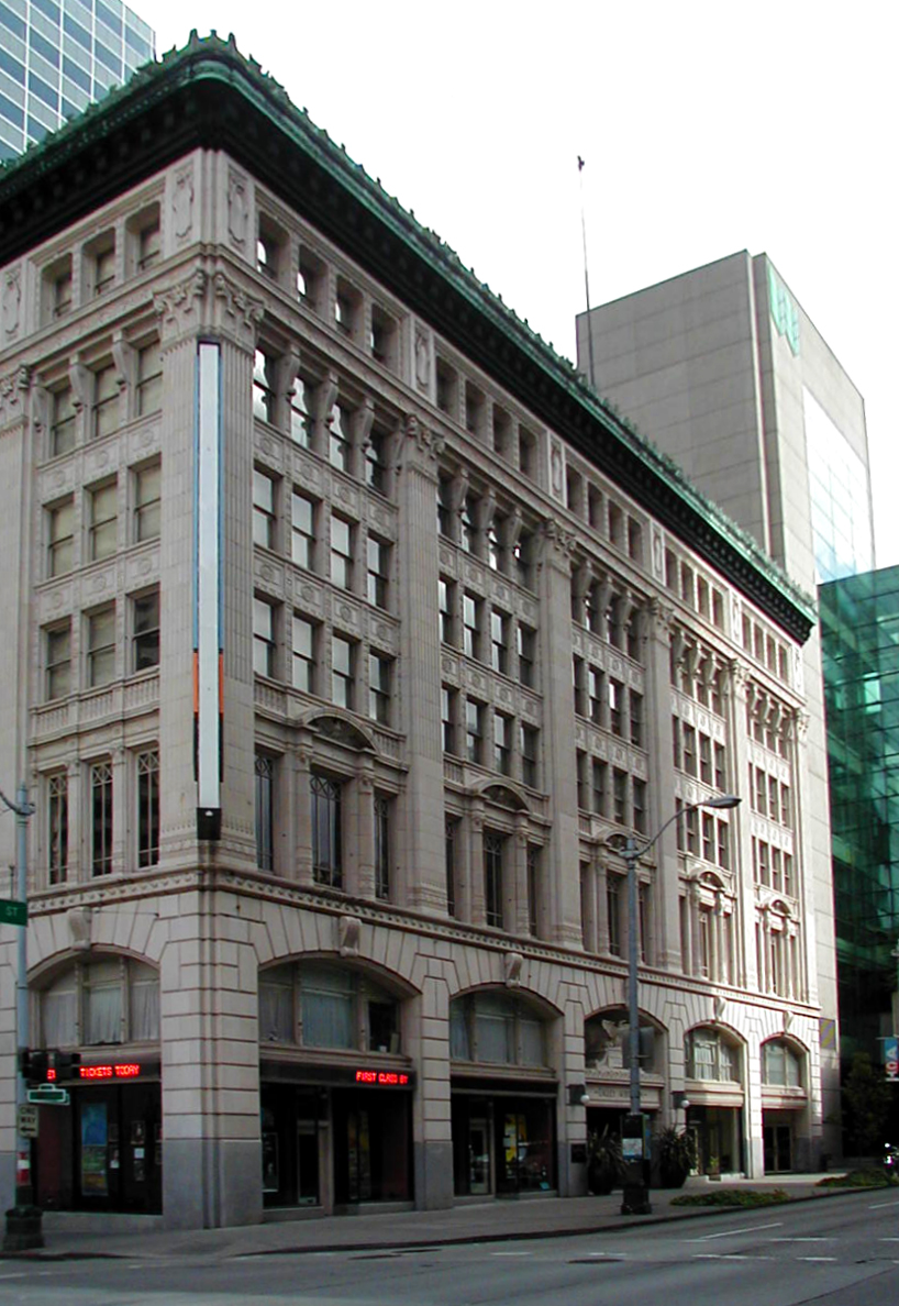 View of Eagles Auditorium, listed on the National Register of Historic Places. Built 1924, renovated 1996. Home of ACT Theatre. Seattle, Washington, USA.